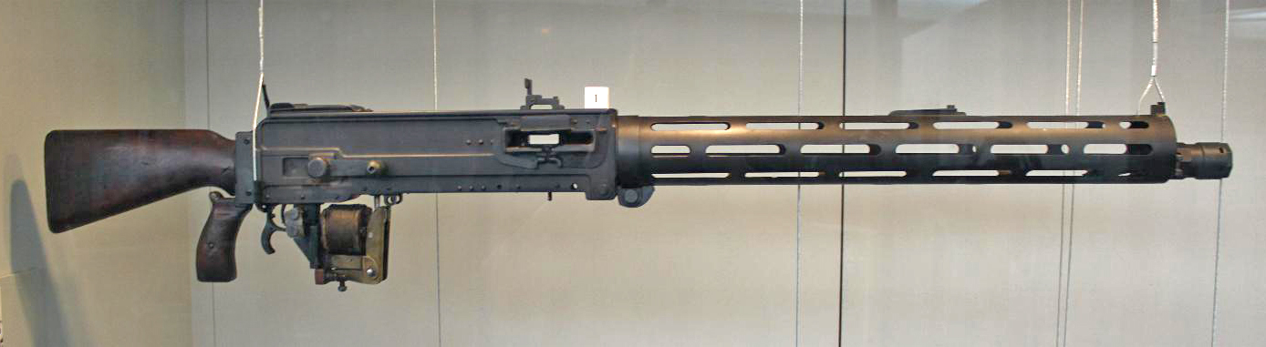 German aircraft machine gun, 1st World War